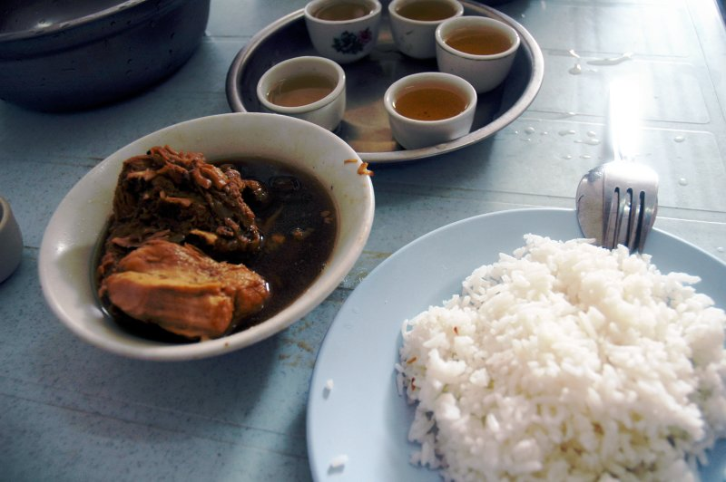 Pork bone tea (bak kut teh) in Klang, Malaysia.